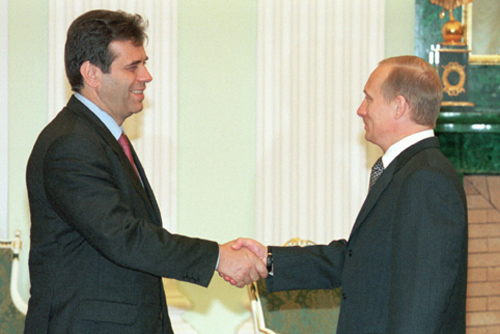 THE KREMLIN, MOSCOW. Vladimir Putin and President of the Federal Republic of Yugoslavia Vojislav Kostunica.